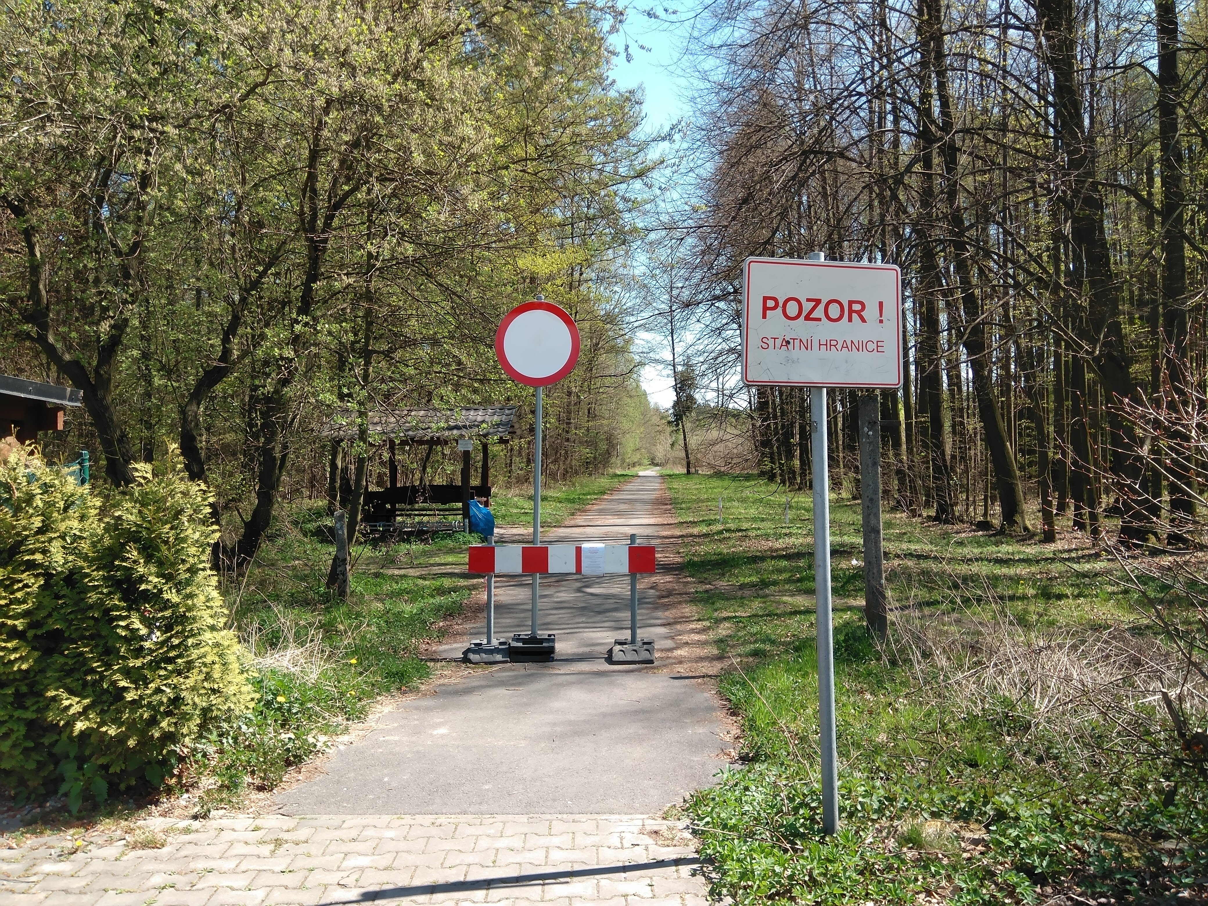 Closed border between Karviná-Mizerov and Zebrzydowice during COVID-19 pandemic.